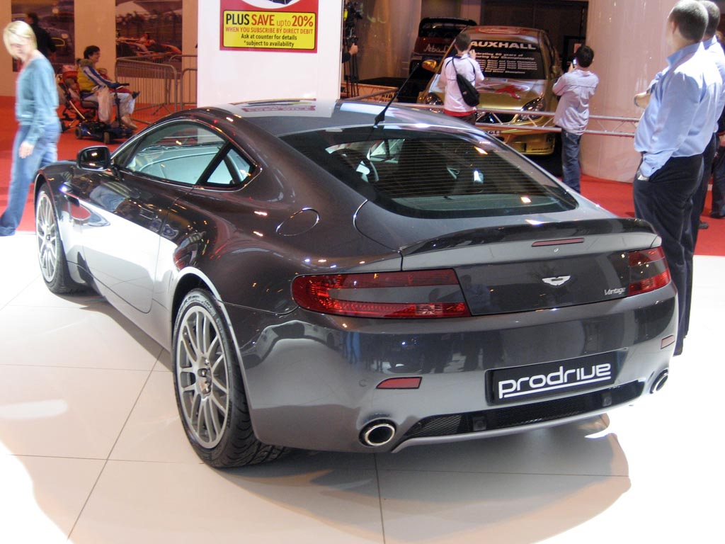 A Prodrive-tuned Aston Martin V8 Vantage